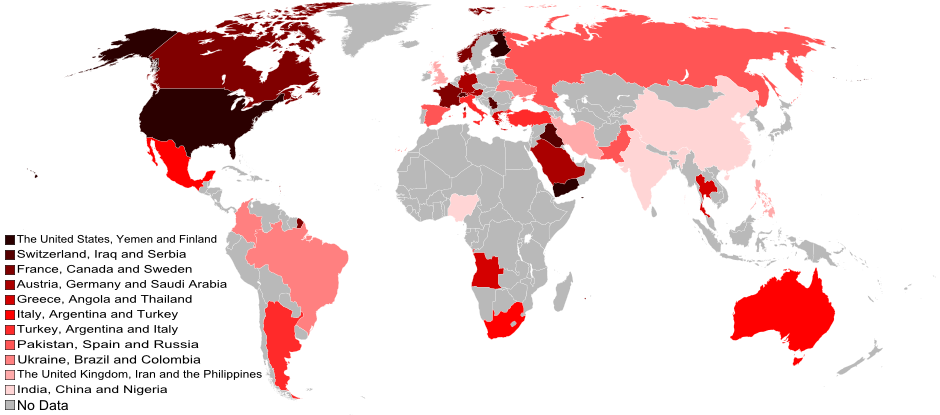 World map of countries by number of guns per 100 residents made on Inkscape using data on article and Blank political map from Wikipedia.